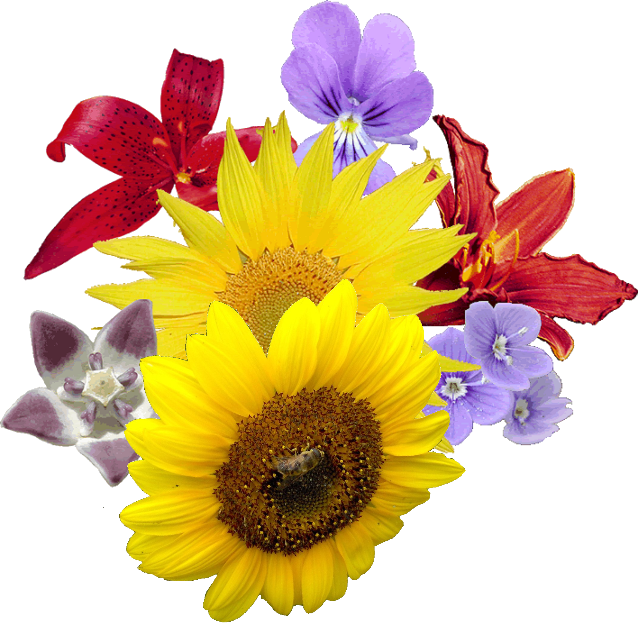 Flower bunch for Anthere